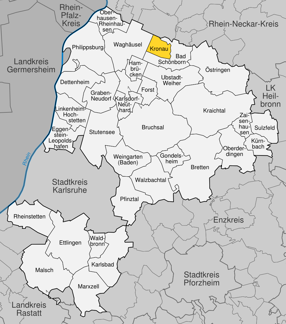 position of Kronau within distict of Karlsruhe, Baden-Württemberg, Germany